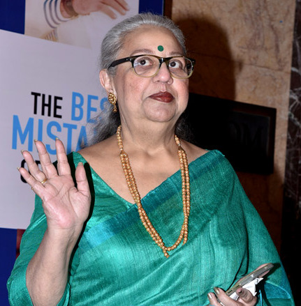 Honey Irani at Sanjay Khan’s book launch ‘The Best Mistakes Of My Life’ in 2018